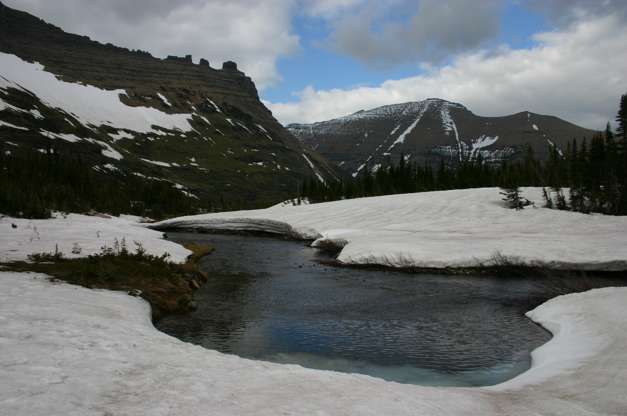 Snow gives way to river in early summer.